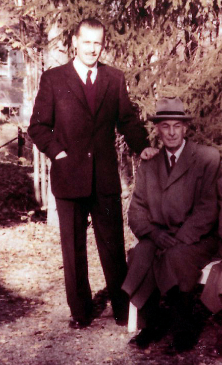 My own private photo